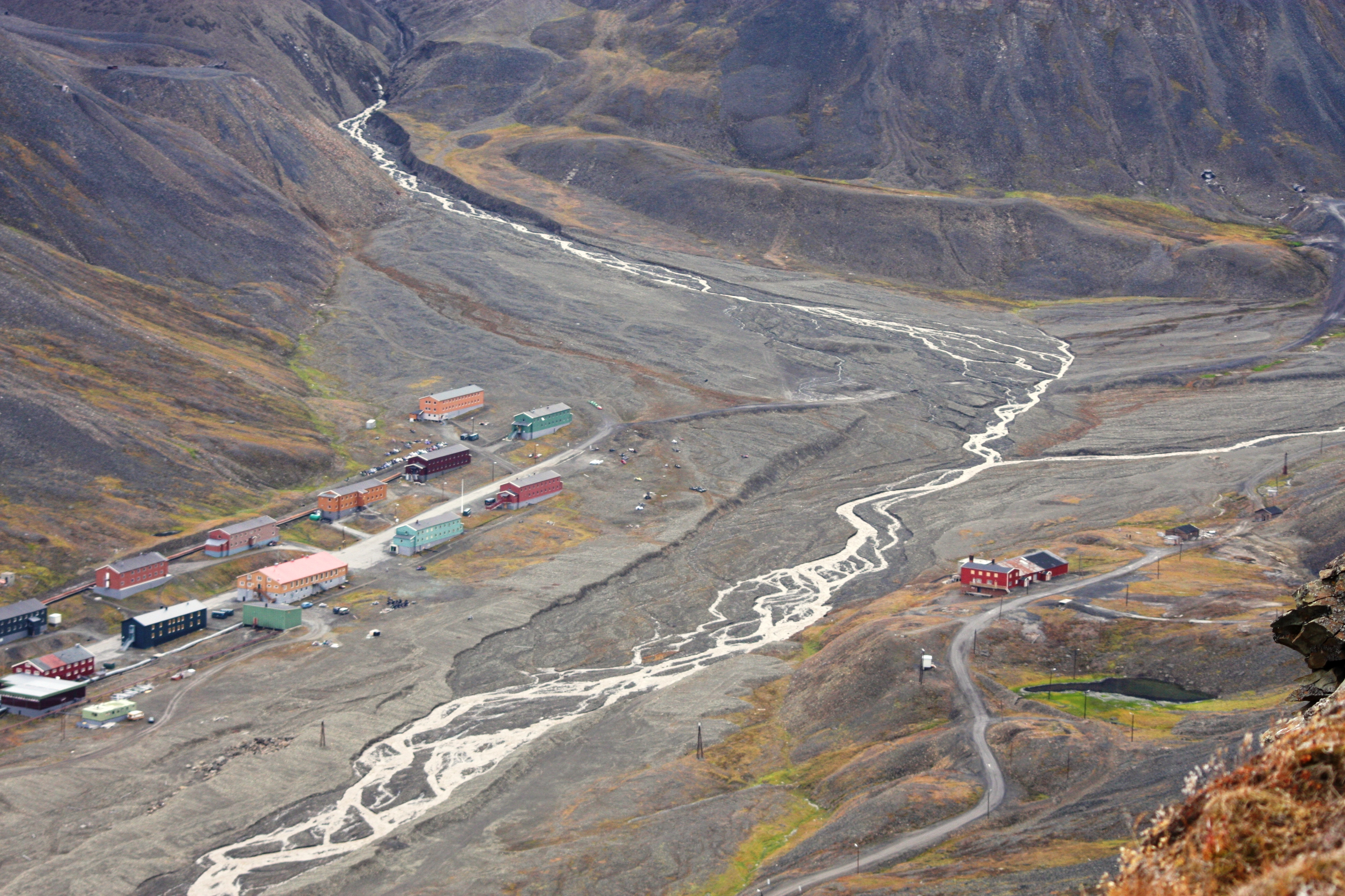 Longyeardalen, Svalbard